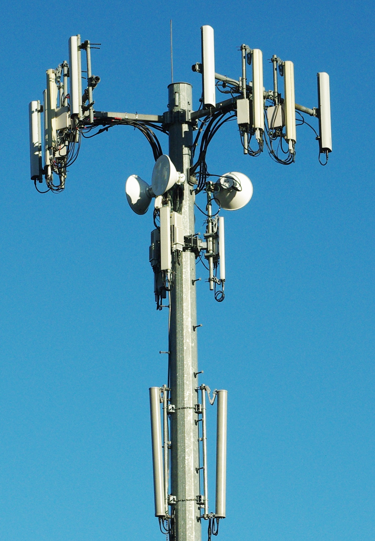 Cell phone tower in Oregon.